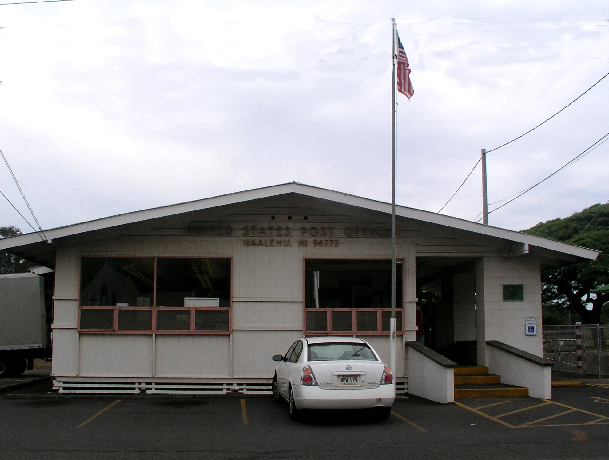 Nā'ālehu Post Office Nā'ālehu, Hawai'i